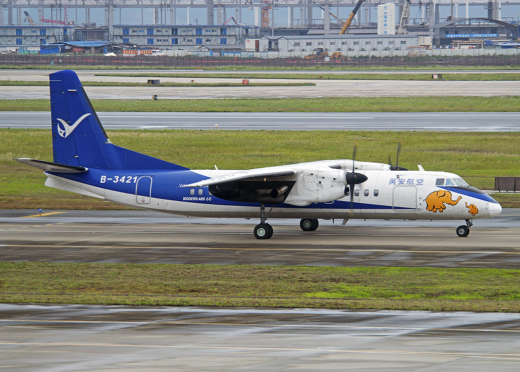 YingAn Airlines Xian MA60 at Chongqing Jiangbei